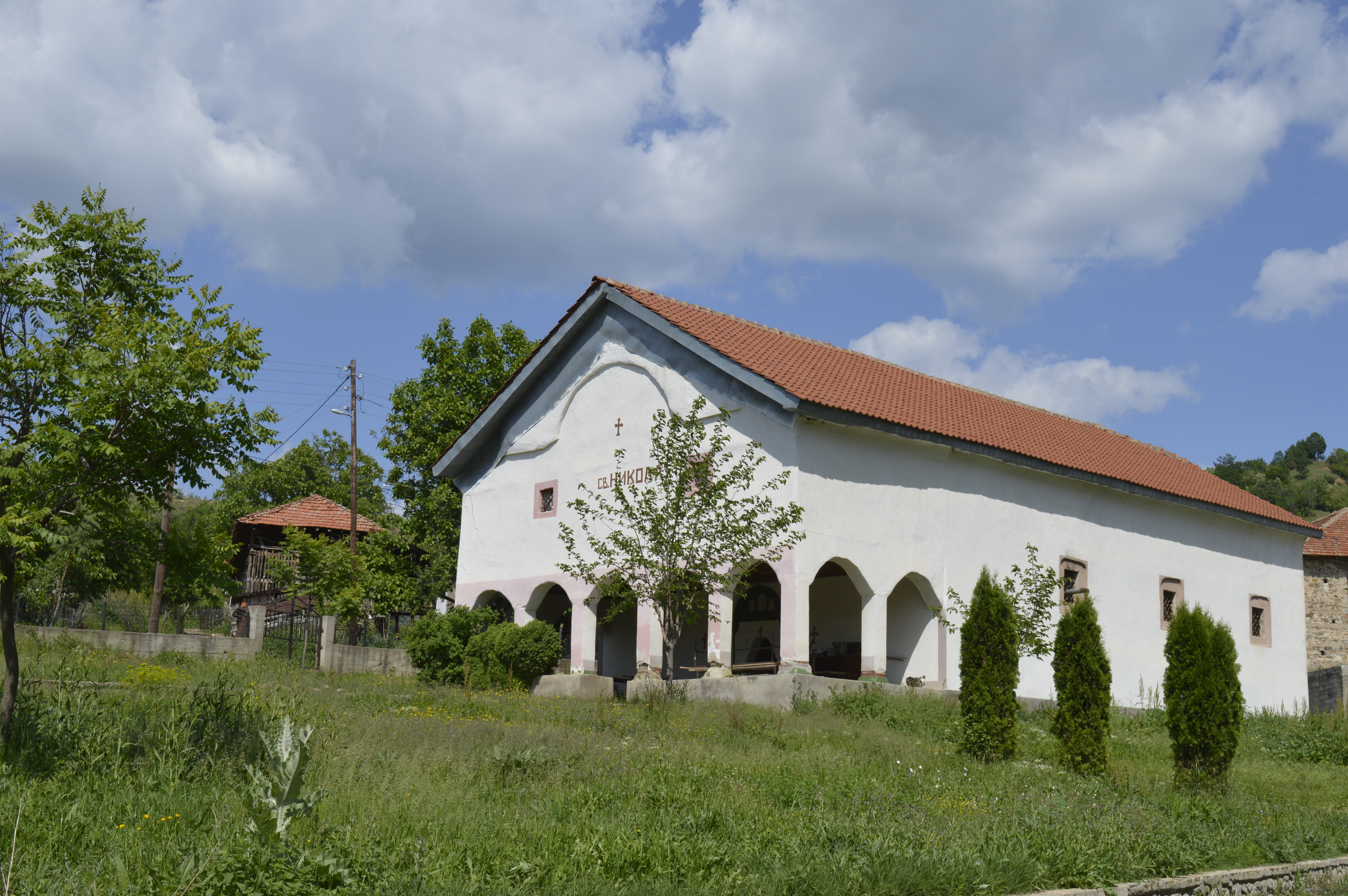 View of the St. Nicholas Church in the village Virče